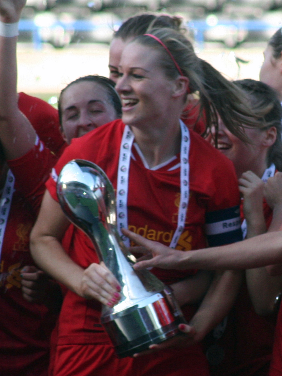 Liverpool L.F.C. - 2013 FA WSL Championship celebration